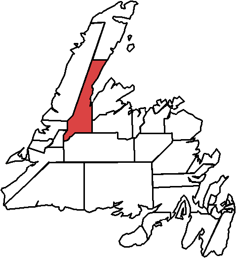 Maps based on images by Earl Warren, from the 2007 elections